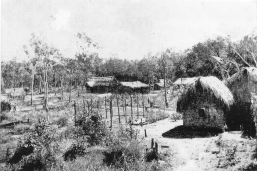 Photo taken June 1919 of Kowanyama